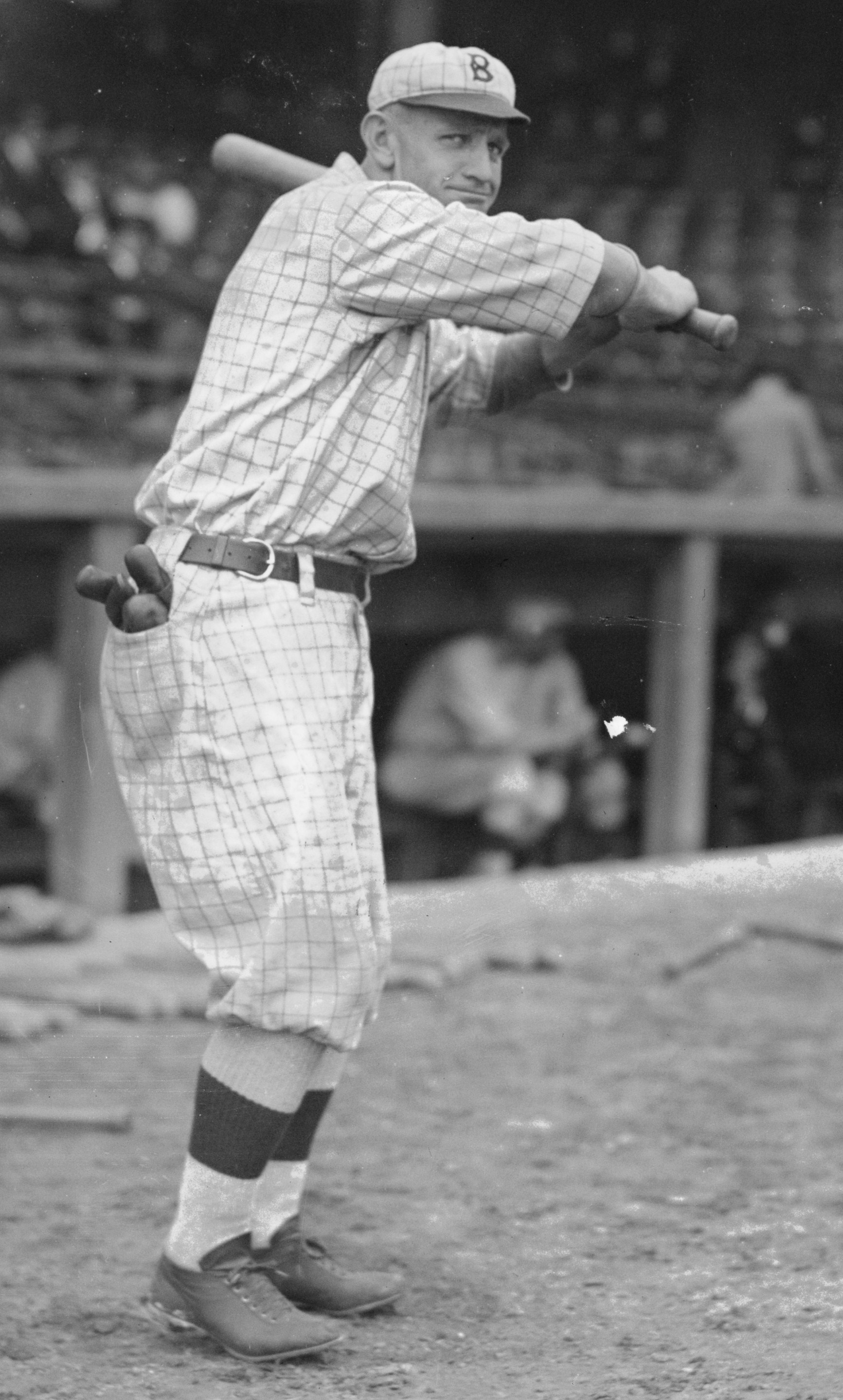 Bain News Service photo of Charles Dillon "Casey" Stengel; cropped by uploader.